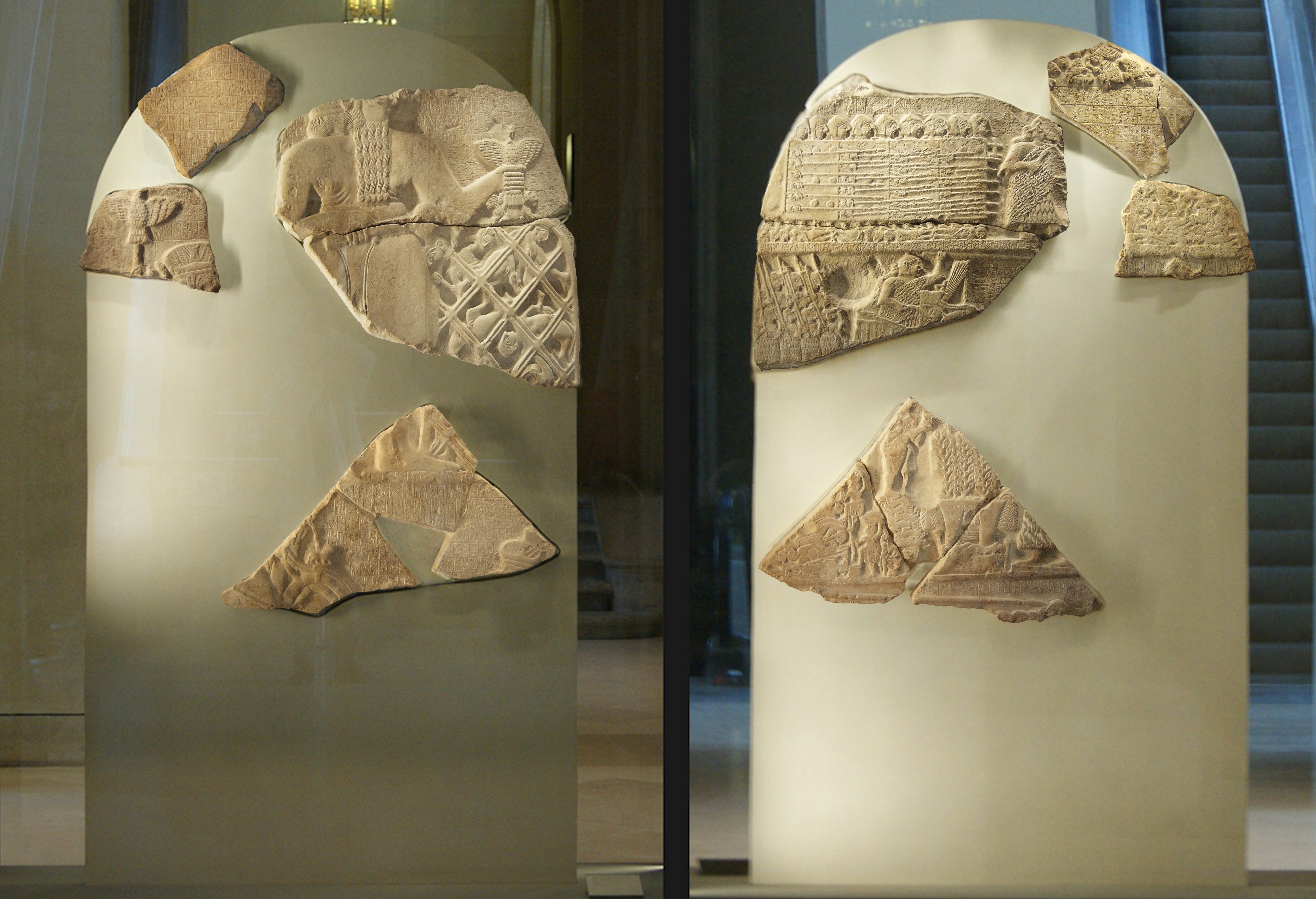 Stele of the Vultures in the Louvre Museum (enhanced composite)